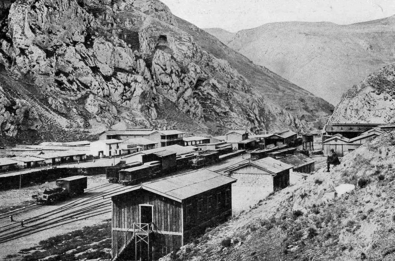 The La Oroya train station 1921